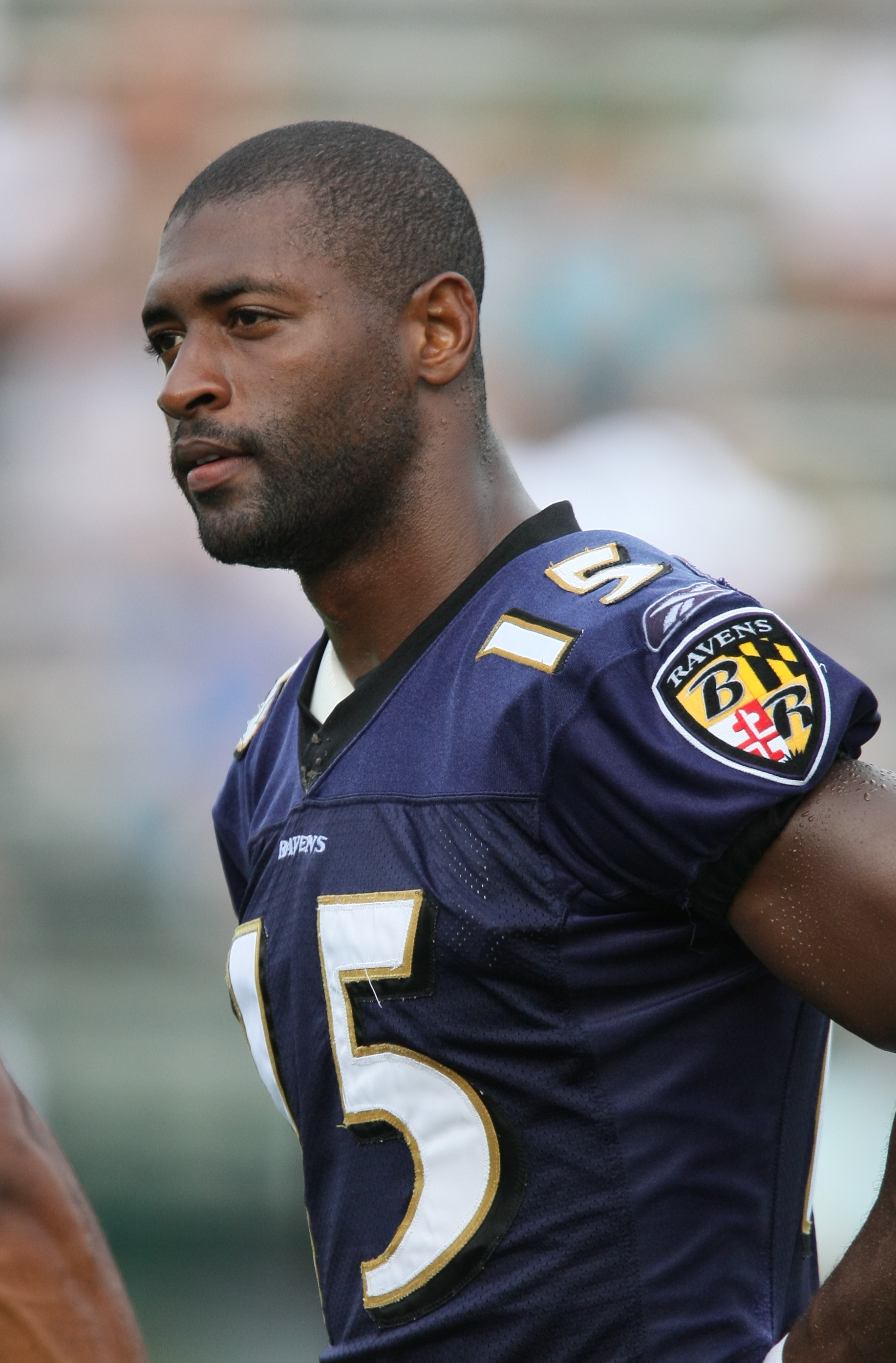 A photo of wide receiver Kelley Washington, then in a Baltimore Ravens uniform. Washington is now playing for the Philadelphia Eagles